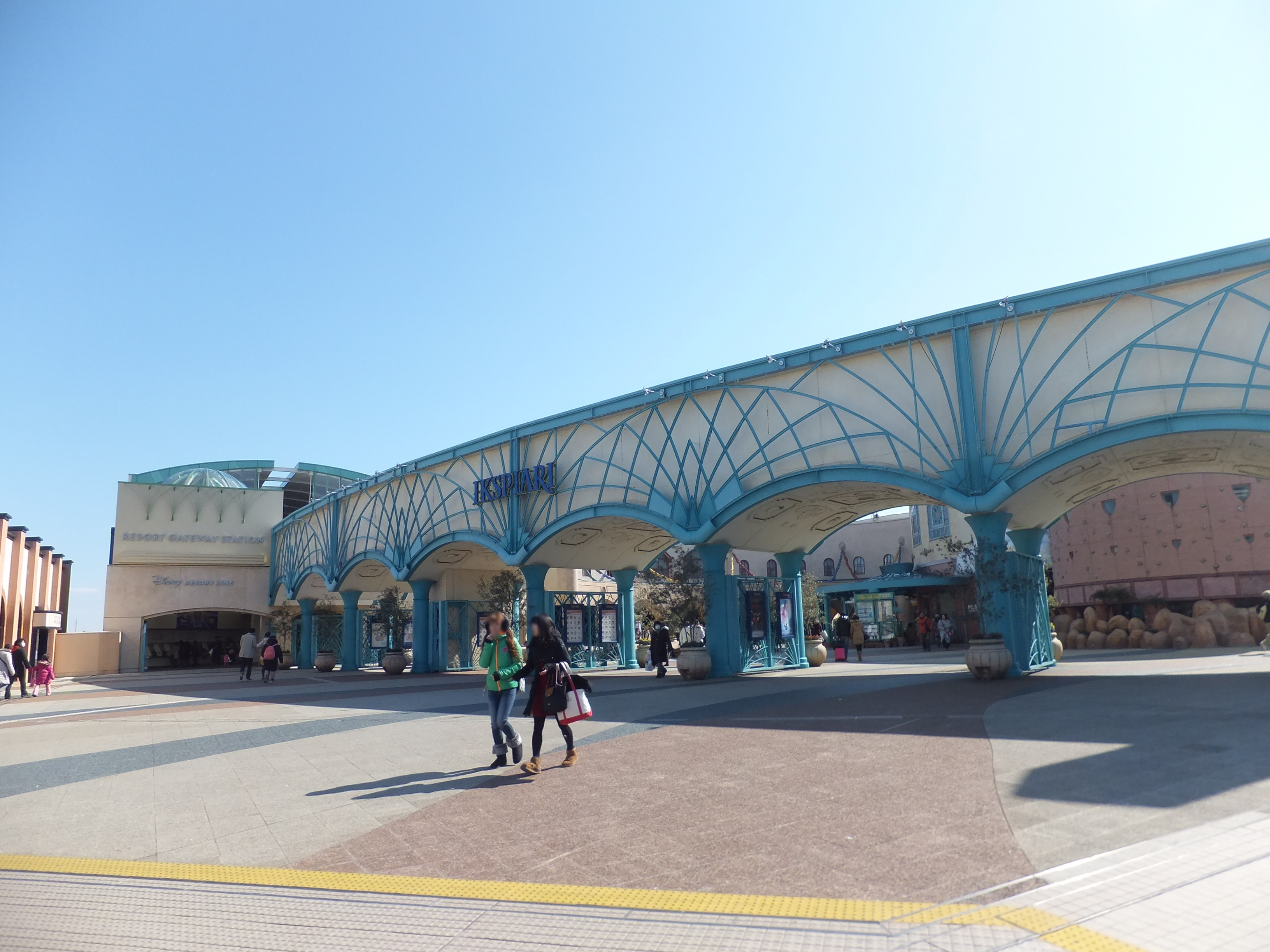 Entrance of the Ikspiari, Tokyo Disney Resort